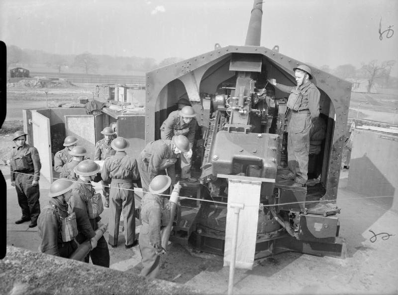 The British Army in the United Kingdom 1939-45 4.5-inch anti-aircraft gun, Leeds, 20 March 1941.